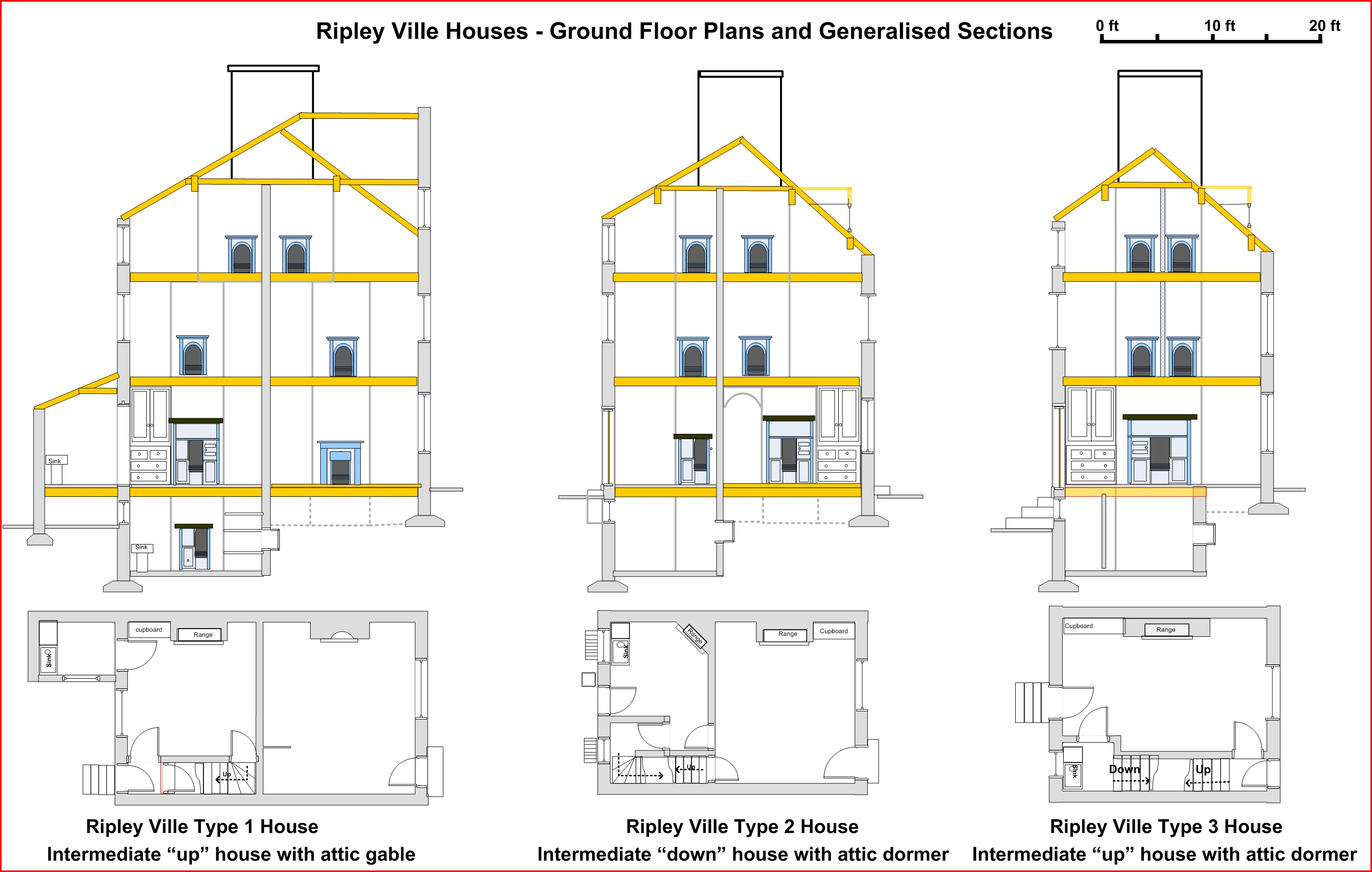 Ripley Ville (Bradford) houses - ground floor plans and generalised sections of the three house types